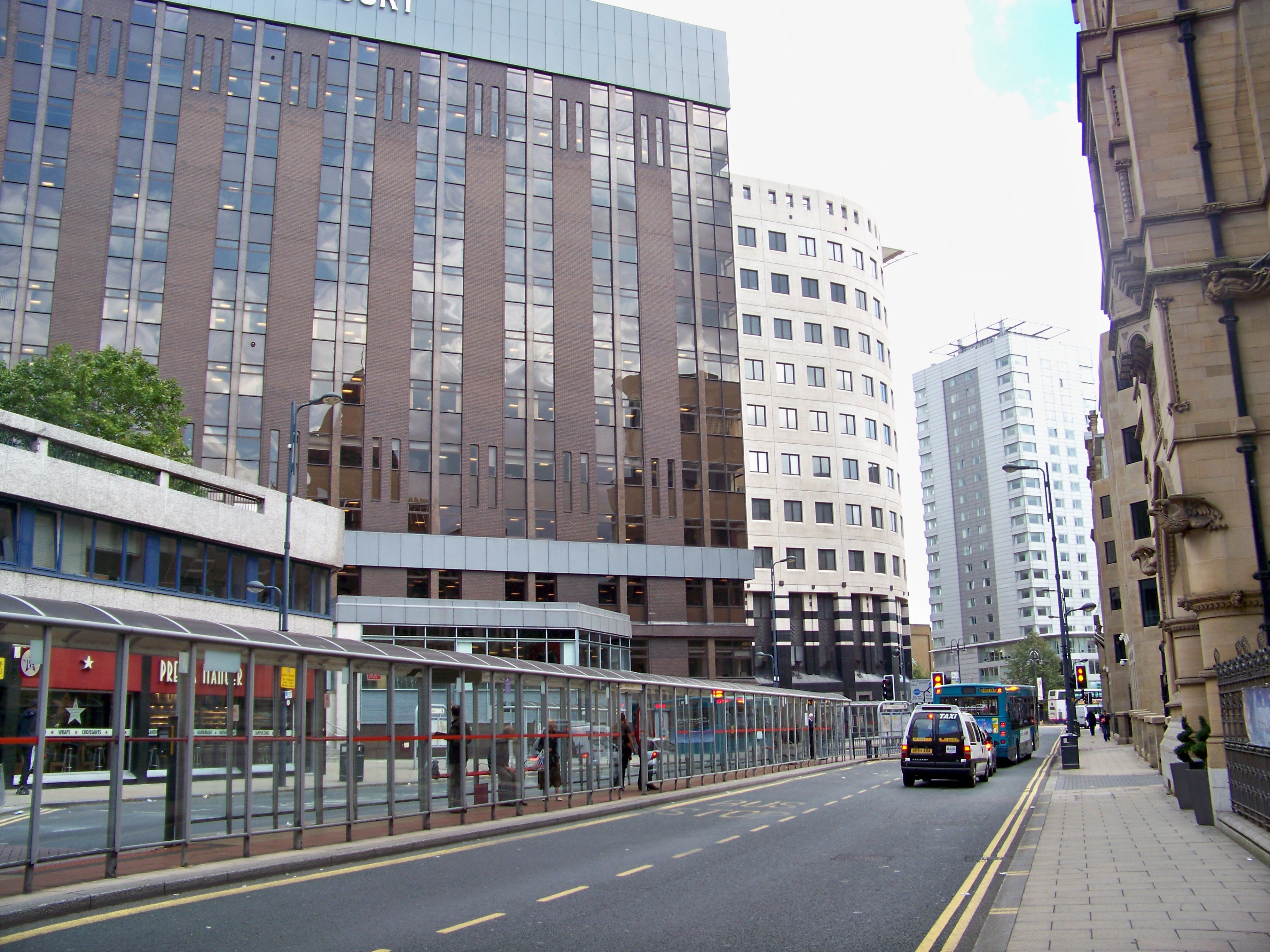 Infirmary Street, looking South East. Infirmary Street is in the heart of the financial district of Leeds. Taken on the afternoon of Tuesday 15th September 2009.